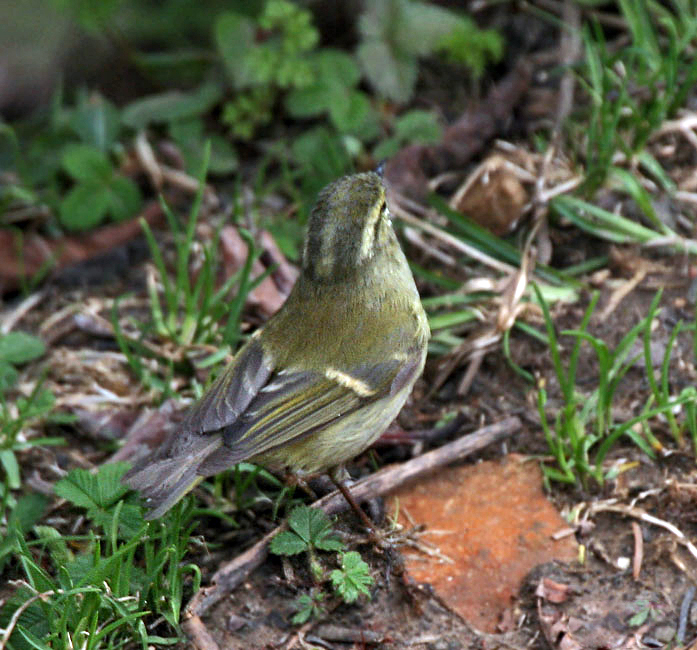 Hume's Warbler Phylloscopus hume at Biskeri (11000 ft.) in Kullu District of Himachal Pradesh, India. I was confused because of black bill- Hume's or Blyth's leaf warbler? Whether Bylth's leaf warblers also have black bill? It had a bit of crown stripe. It was seen around Rhododendron bushes & was interested in their flower necter.Taken at Biskeri (11000 ft.) at 2 p.m. during Sar Pass Trek in Himachal. Thanks, Bill who confirmed it to be Hume's Warbler.